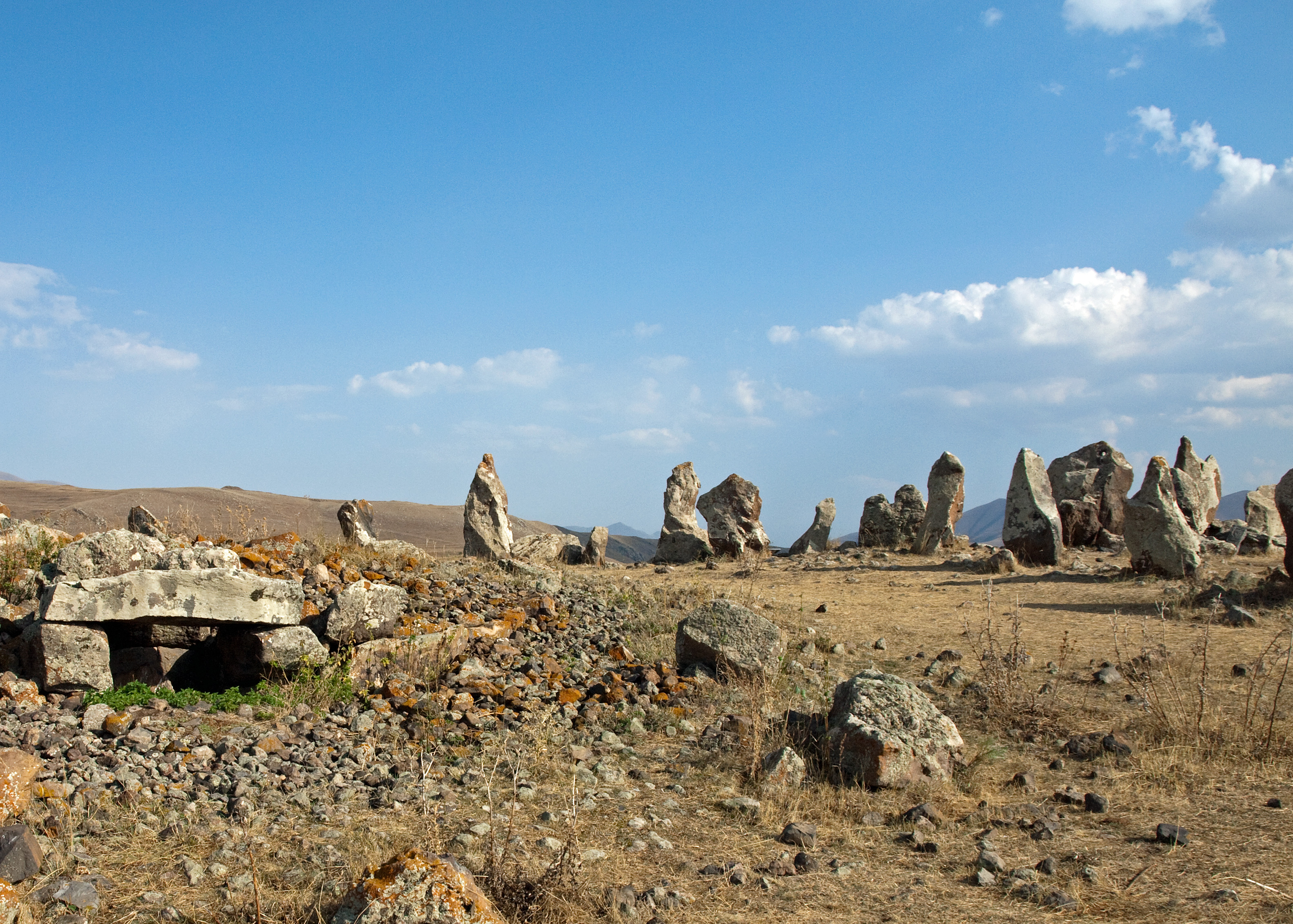 Armenia - Day 5 - 22 September 2010.